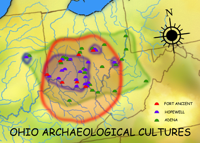 A map showing the archaeological cultures of Ohio.